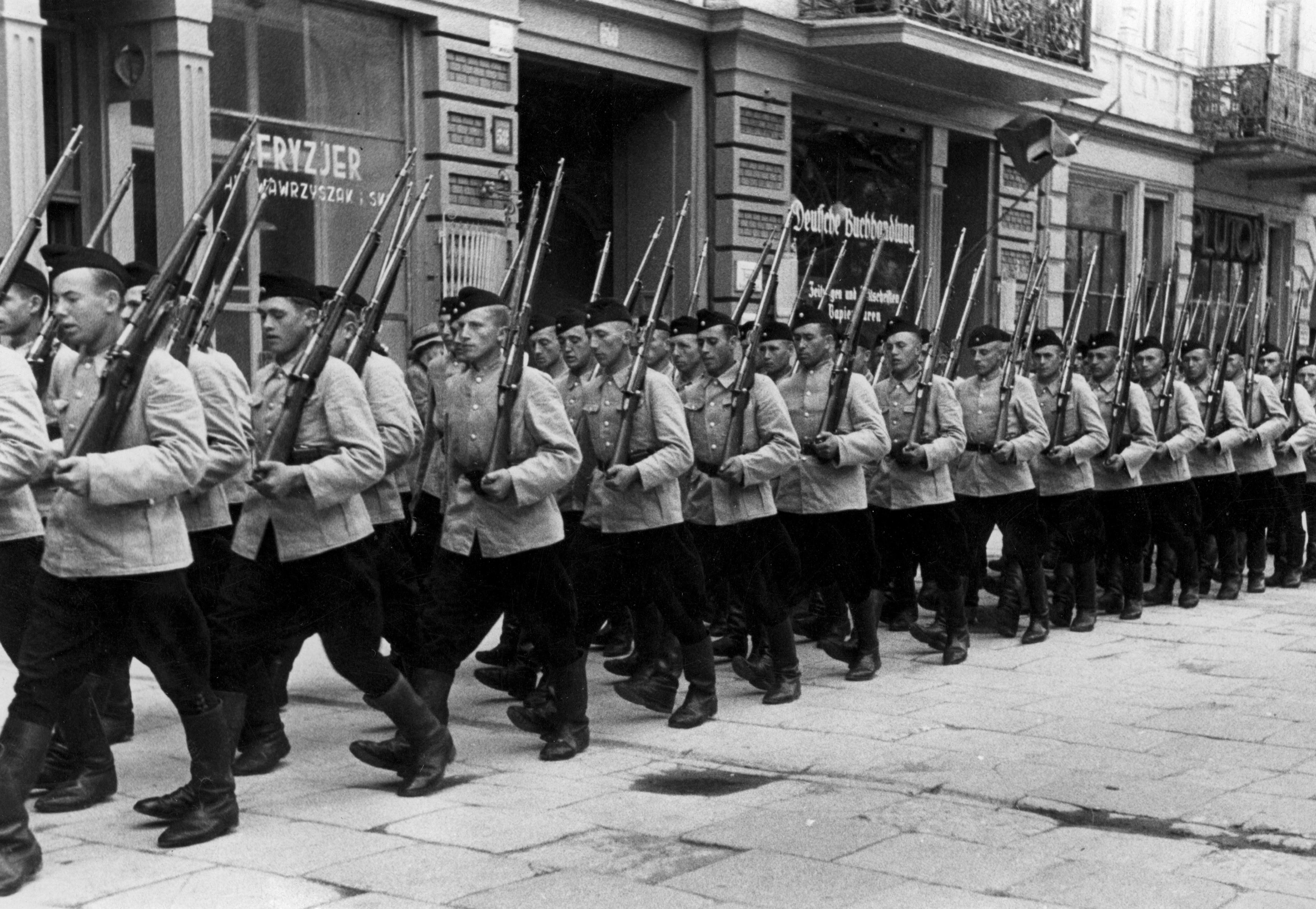 German Police Sonderdienst in Kraków 1940